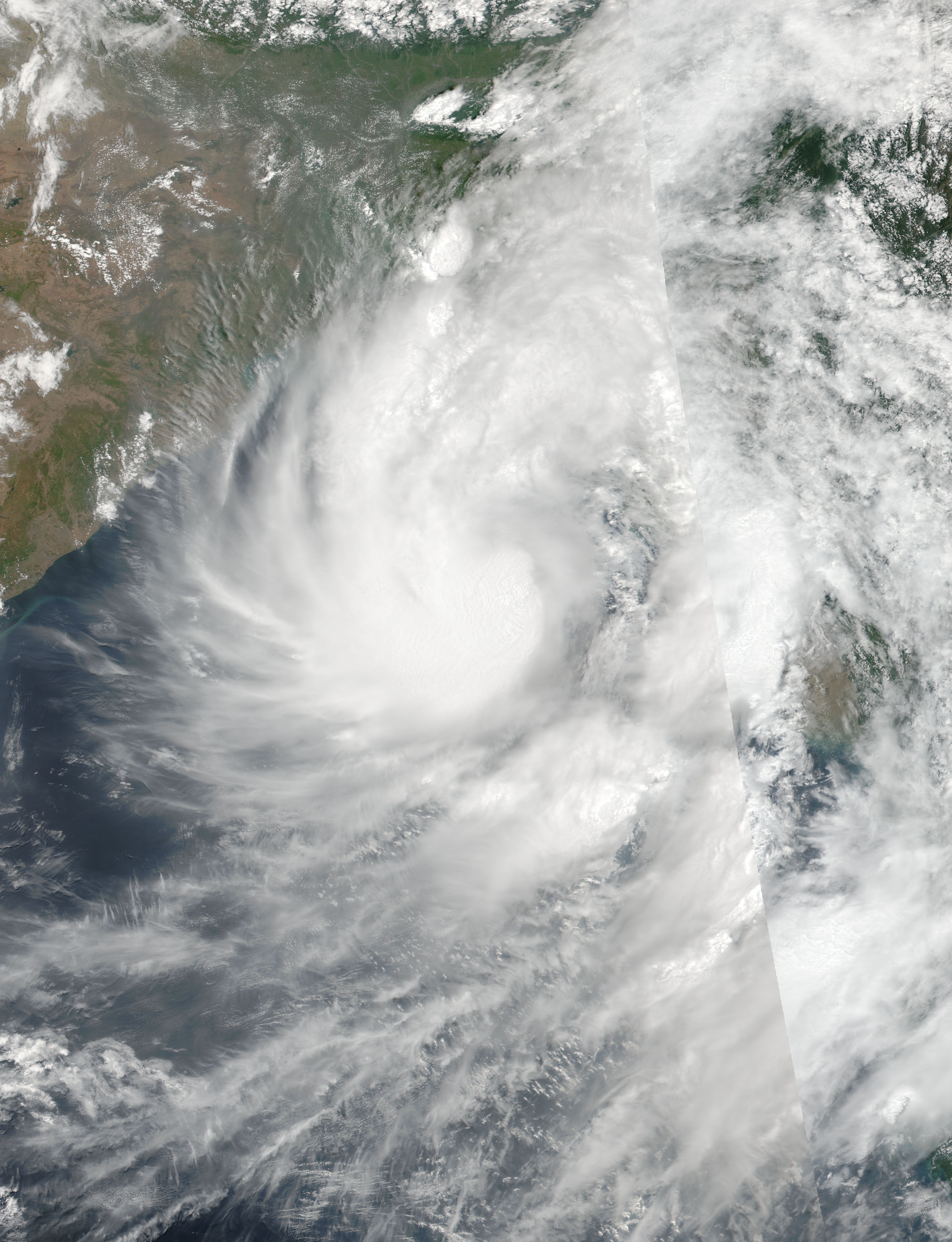 Tropical Cyclone Mora (02B) over the Bay of Bengal